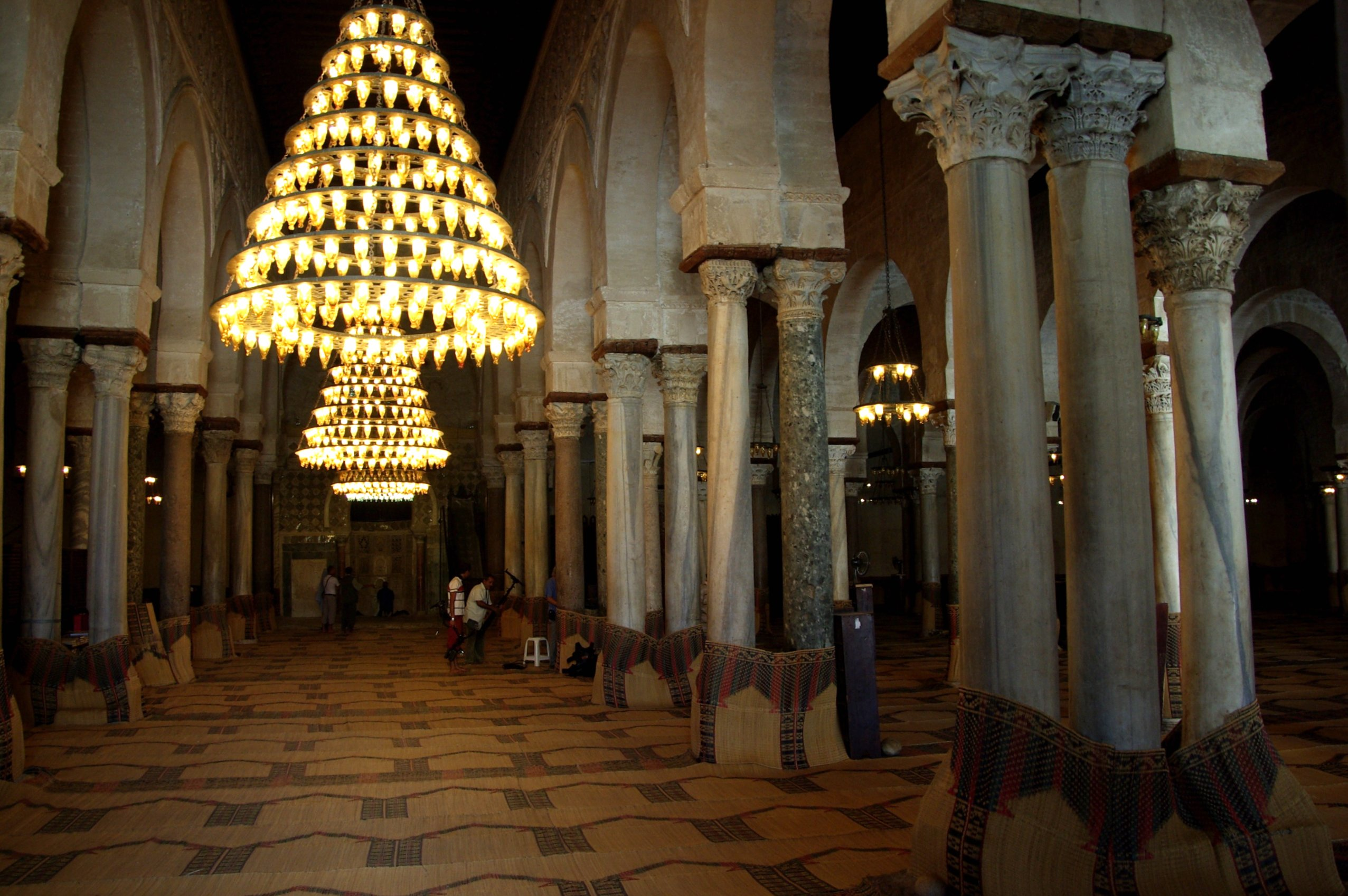 Ancient Roman columns and Mosque lamps in the Prayer hall—Great Mosque of Kairouan, Tunisia.